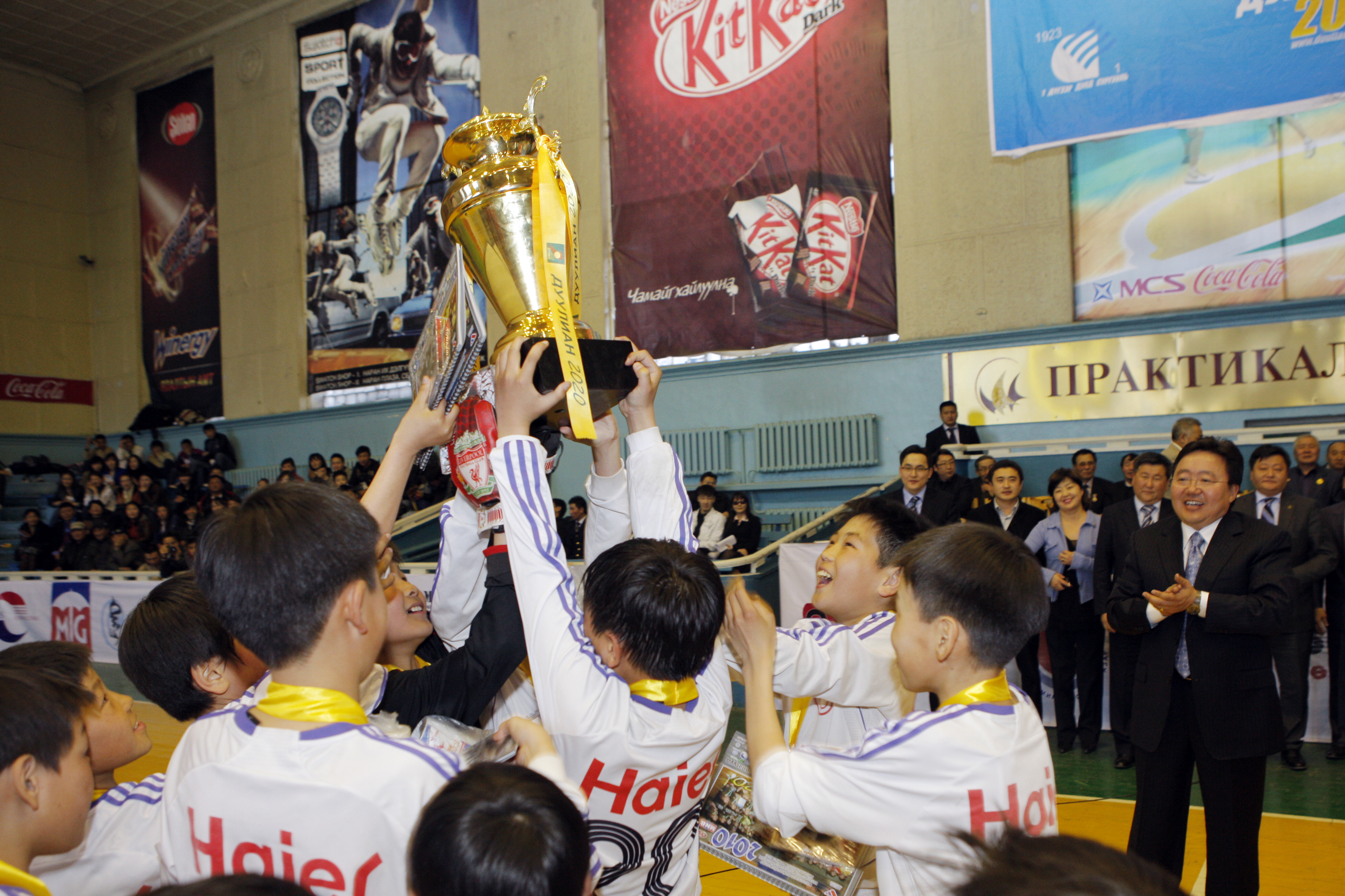 2010.04.16. Улаанбаатар хотын аварга шалгаруулах "Дуулиан-2020" тэмцээний 2009-2010 оны улирлын 11 хүртэлх насны ангиллын аварга баг.